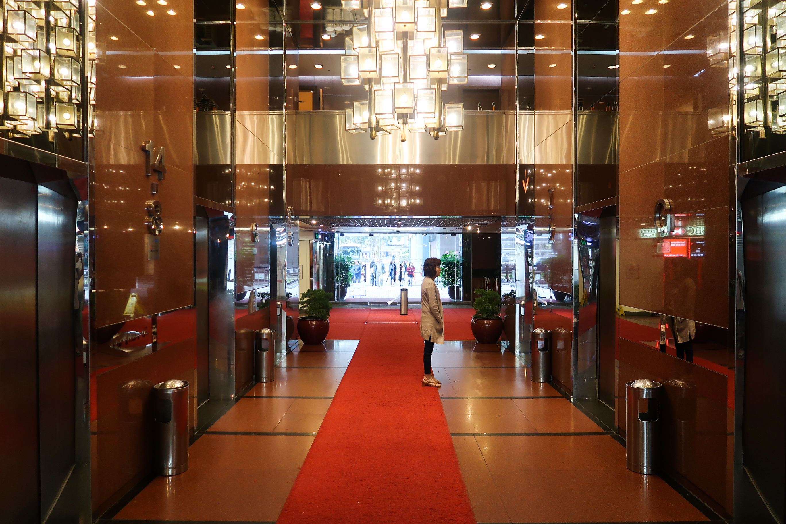 East Ocean Centre Office lobby